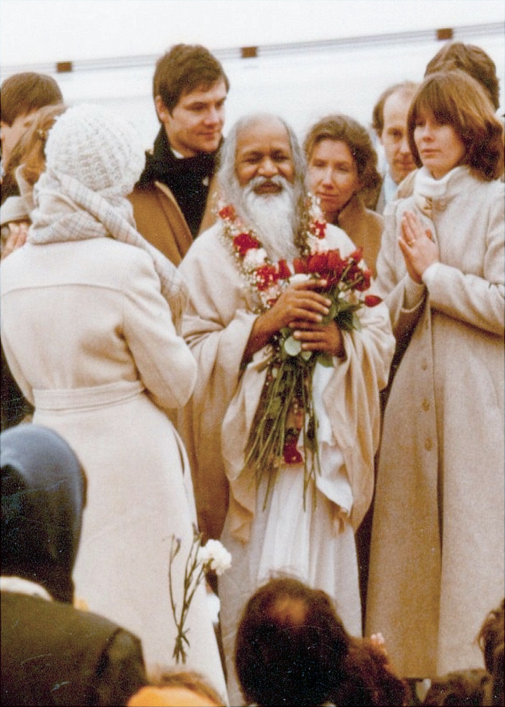 Maharishi Mahesh Yogi during a 1979 visit to the Maharishi University of Management campus in Fairfield Iowa.